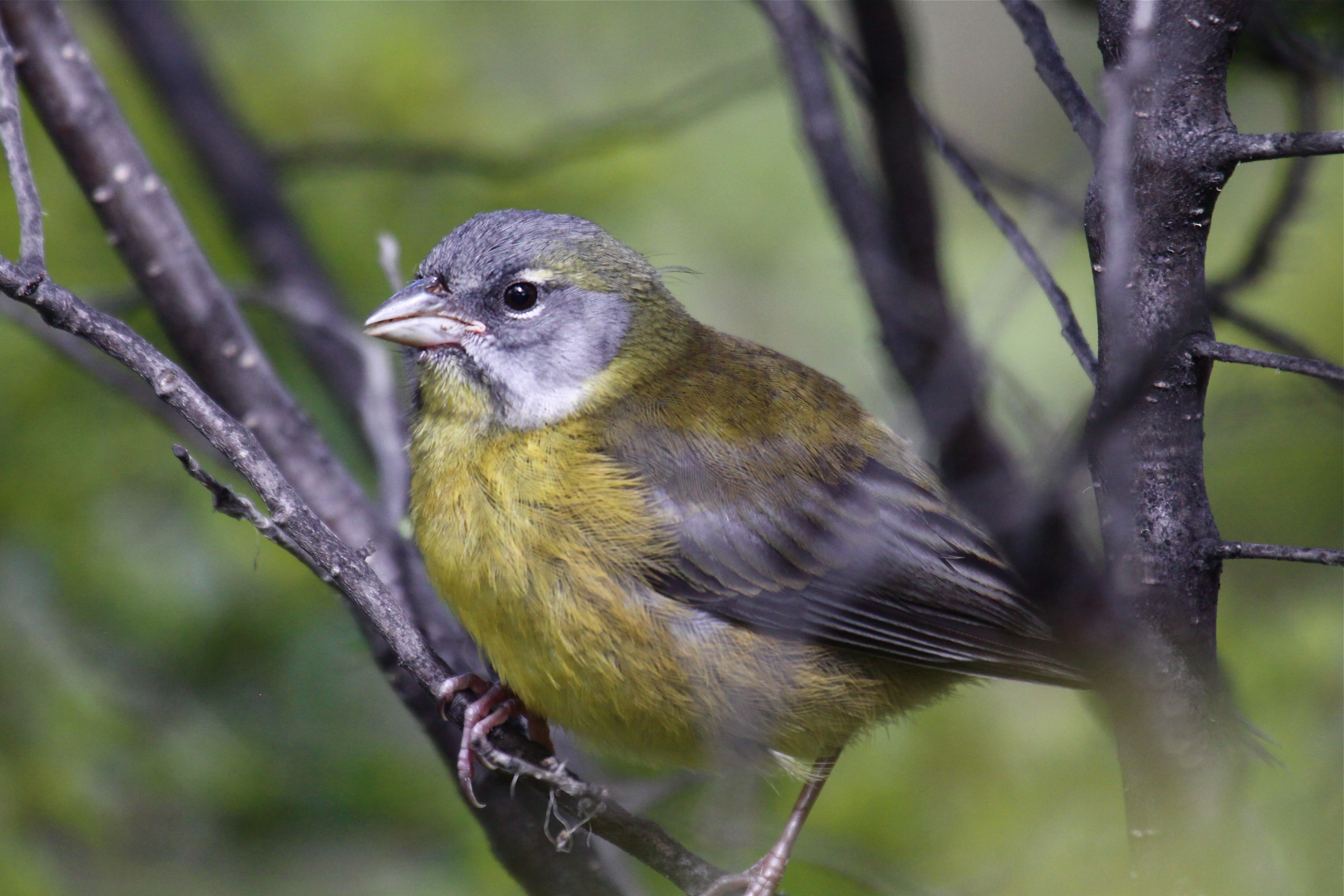 Patagonian Sierra-Finch spotted @ Tierra del Fuego National Park